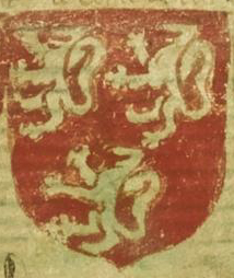 Coat of arms of "Le conte de Ros" as it appears in the fourteenth-century Balliol Roll.